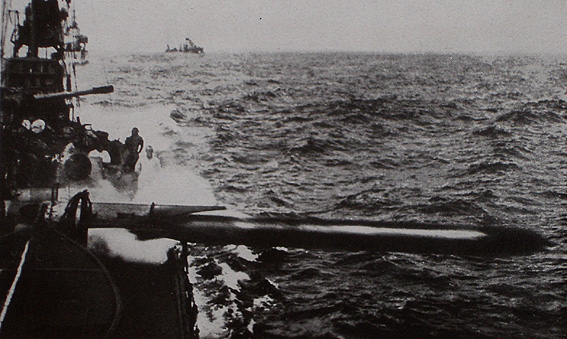 German torpedoboat firing torpedo at the Battle of Jutland, 31 May 1916.